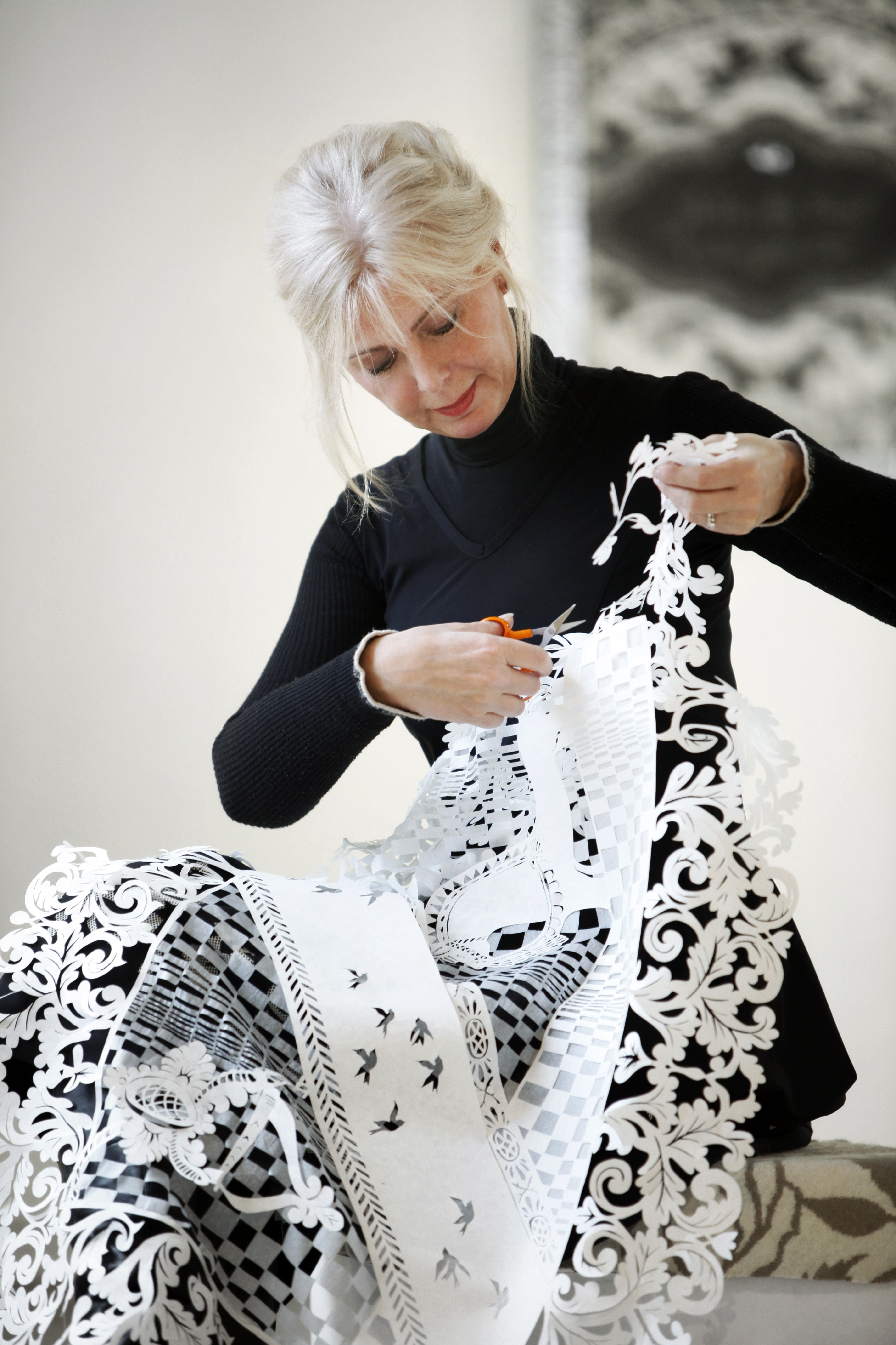 photo showing the Danish/Norwegian artist Karen Bit Vejle at work with her psaligraphy; the art of making pictures of paper and air, using only a pair of scissors